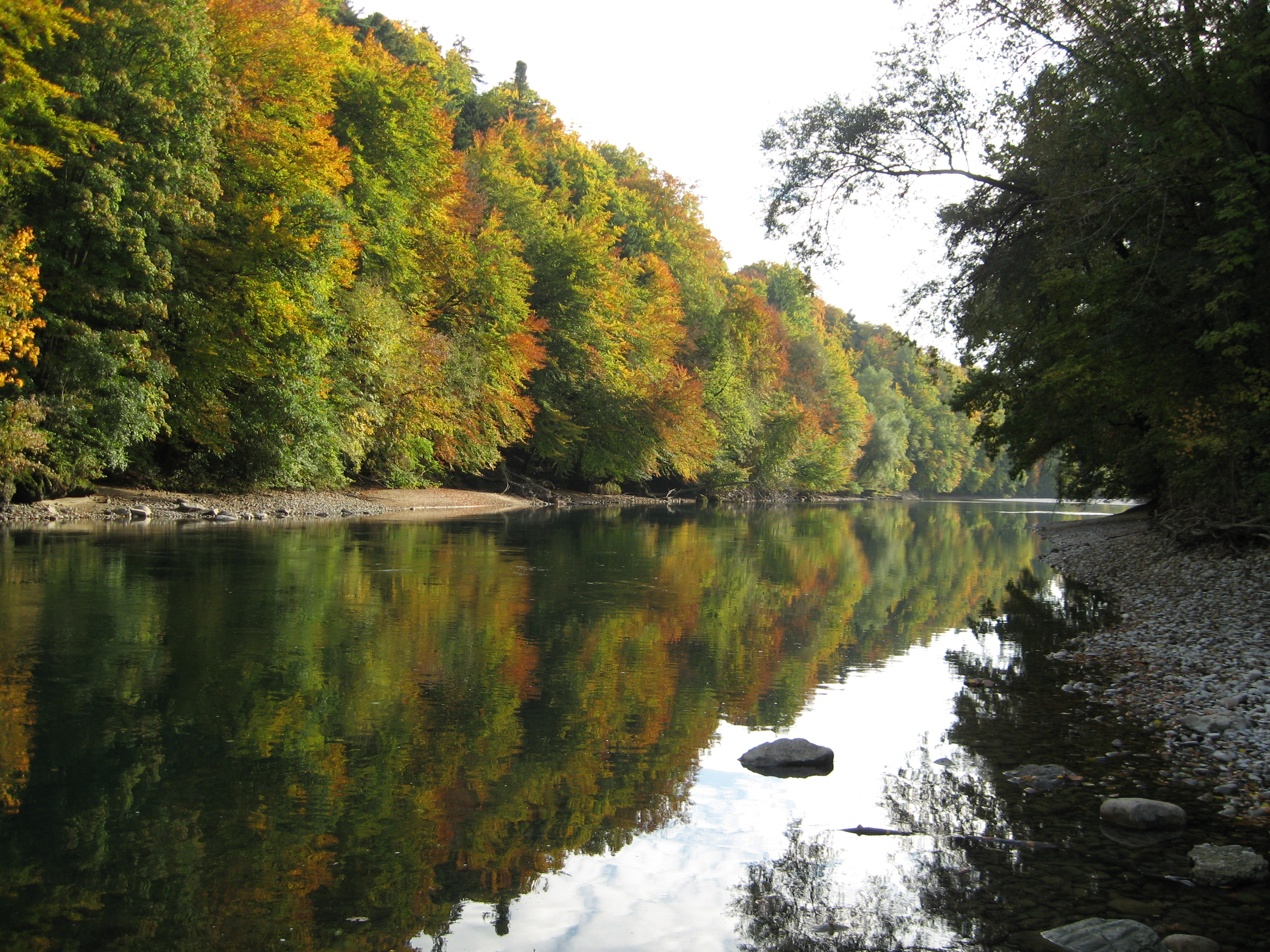 The Aar near Berne (Switzerland)